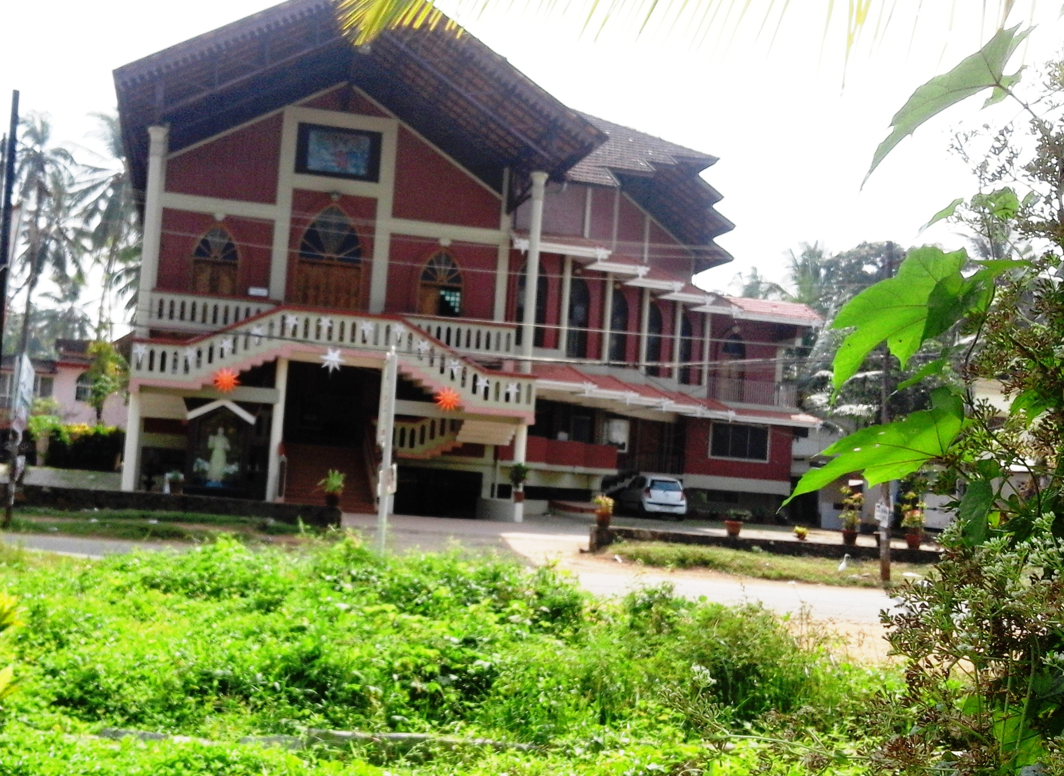 Ashokapuram Infant Jesus Church, K.P.Antony Master Road, Jaffer Khan Colony, Kozhikdoe.